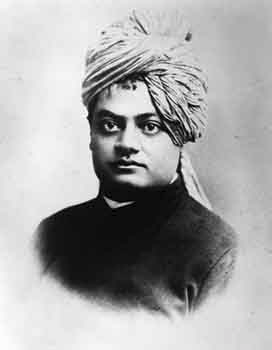 Another image of Swami Vivekananda in Chicago, 1893